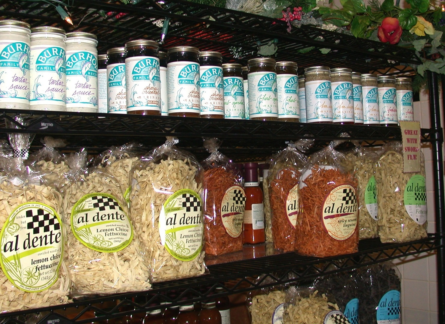 Burhop's-branded marinades and sauces.